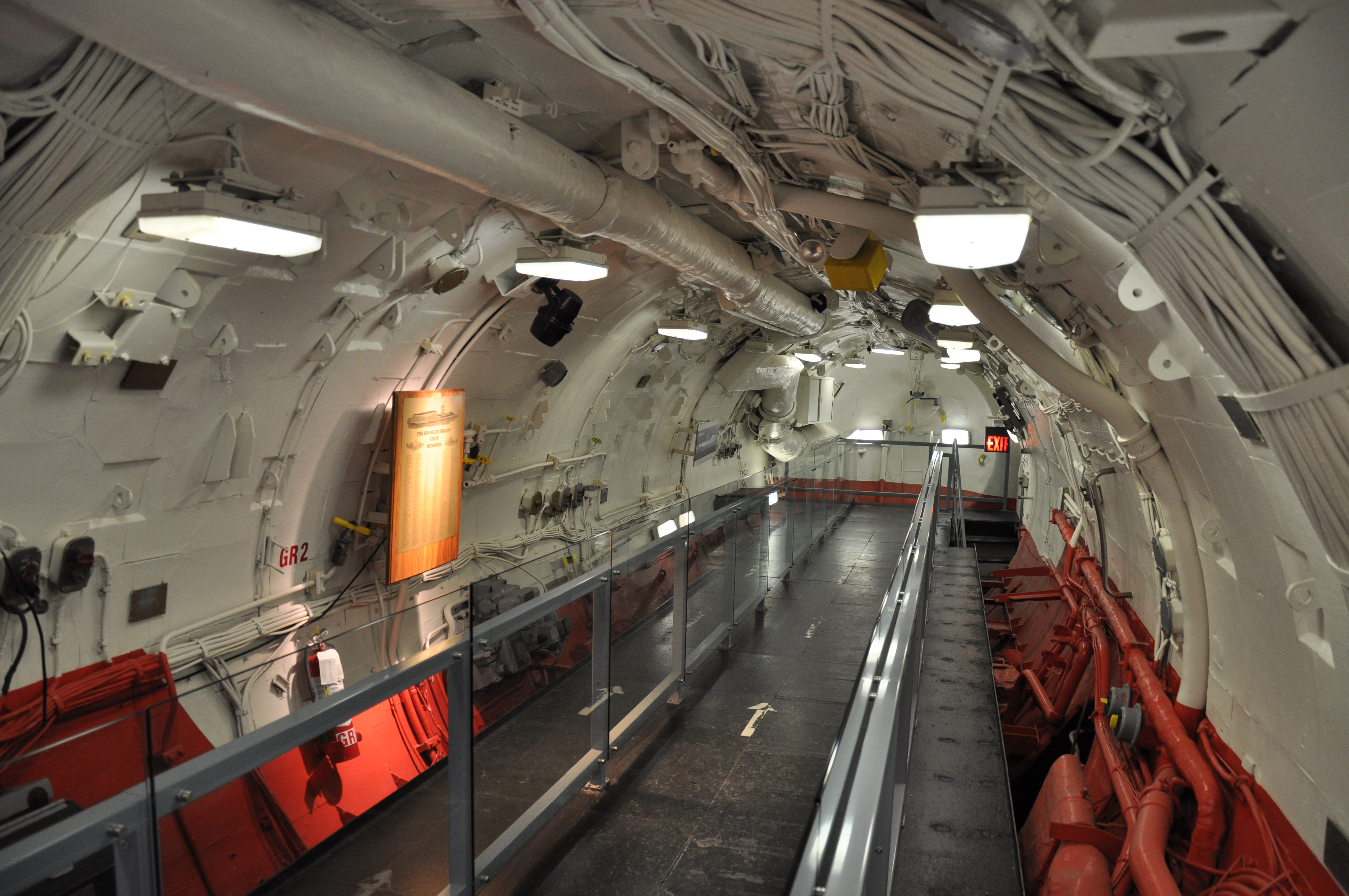 USS Growler (SSG-577), an early cruise missile submarine of the Grayback class, was the fourth ship of the United States Navy to be named for the growler, a large-mouth black bass.